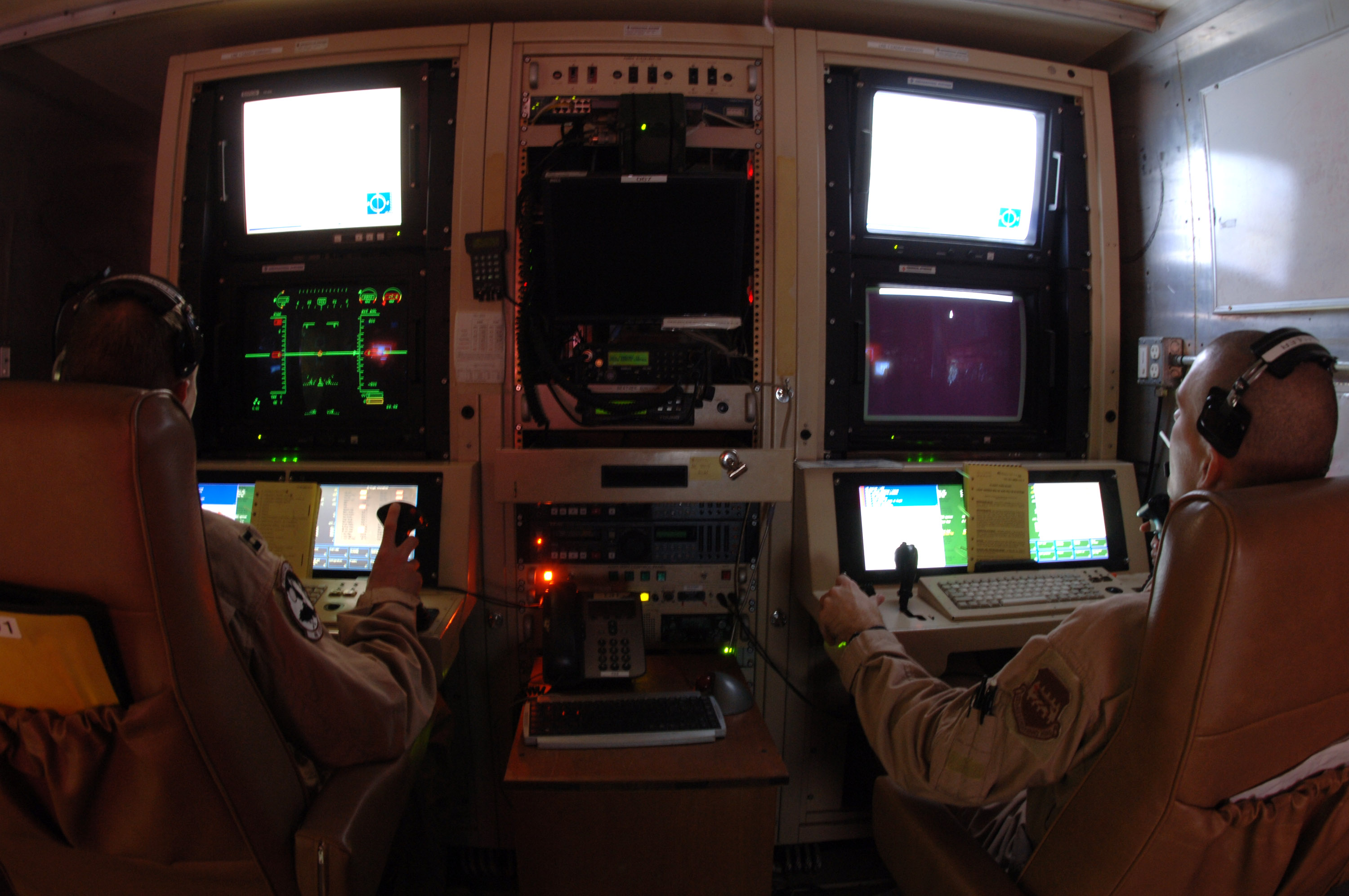 Captain Michael Edmonston and Airman 1st Class Stephen Sadler man the controls of a MQ-1 Predator Unmanned Aerial Vehicle from the control room at Balad Air Base, Iraq. Capt Edmonston is a pilot and A1C Sadler is a sensor operator, both are from the 46th Expeditionary Reconnaissance Squadron.